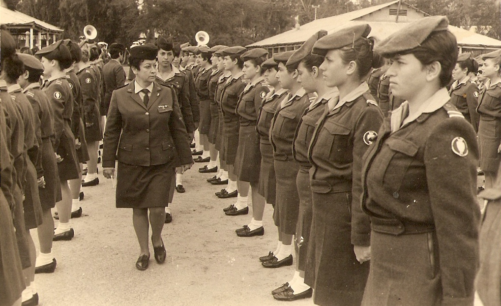 Order with the base commander Lt. Col. Yona Yodfat